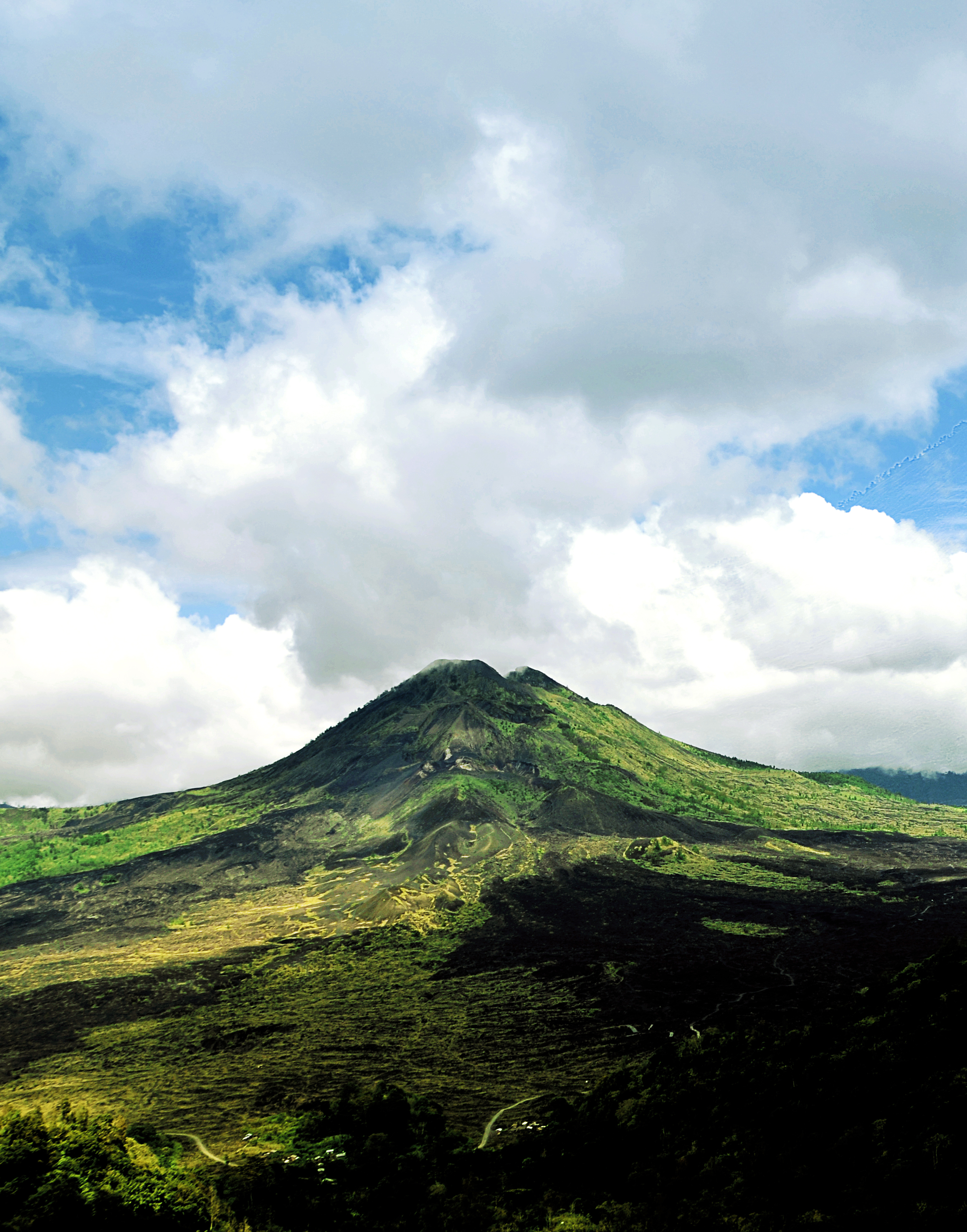 The third highest peak in Bali, Mt. Abang is located near Mt. Batur and its lake of the same name.